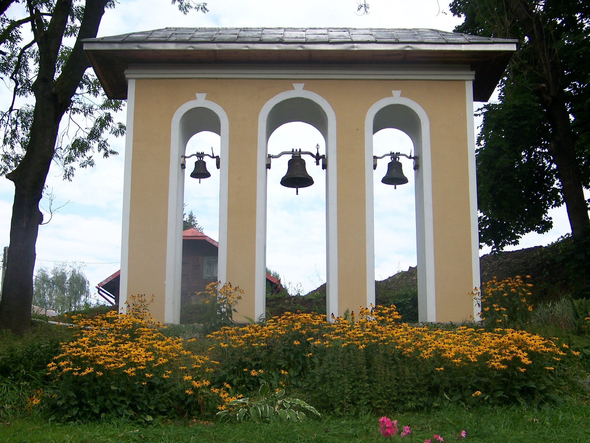 Bellfry near Greek Catholic Church in Ustrzyki Dolne, Poland.